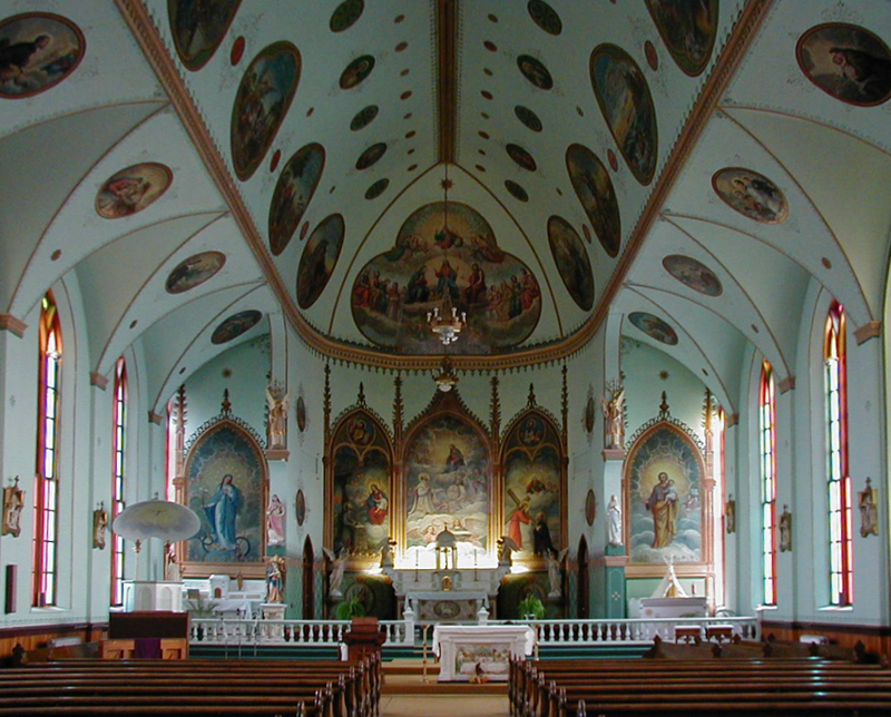 View of nave, interior of St. Ignatius Mission, St. Ignatius, Montana, USA.